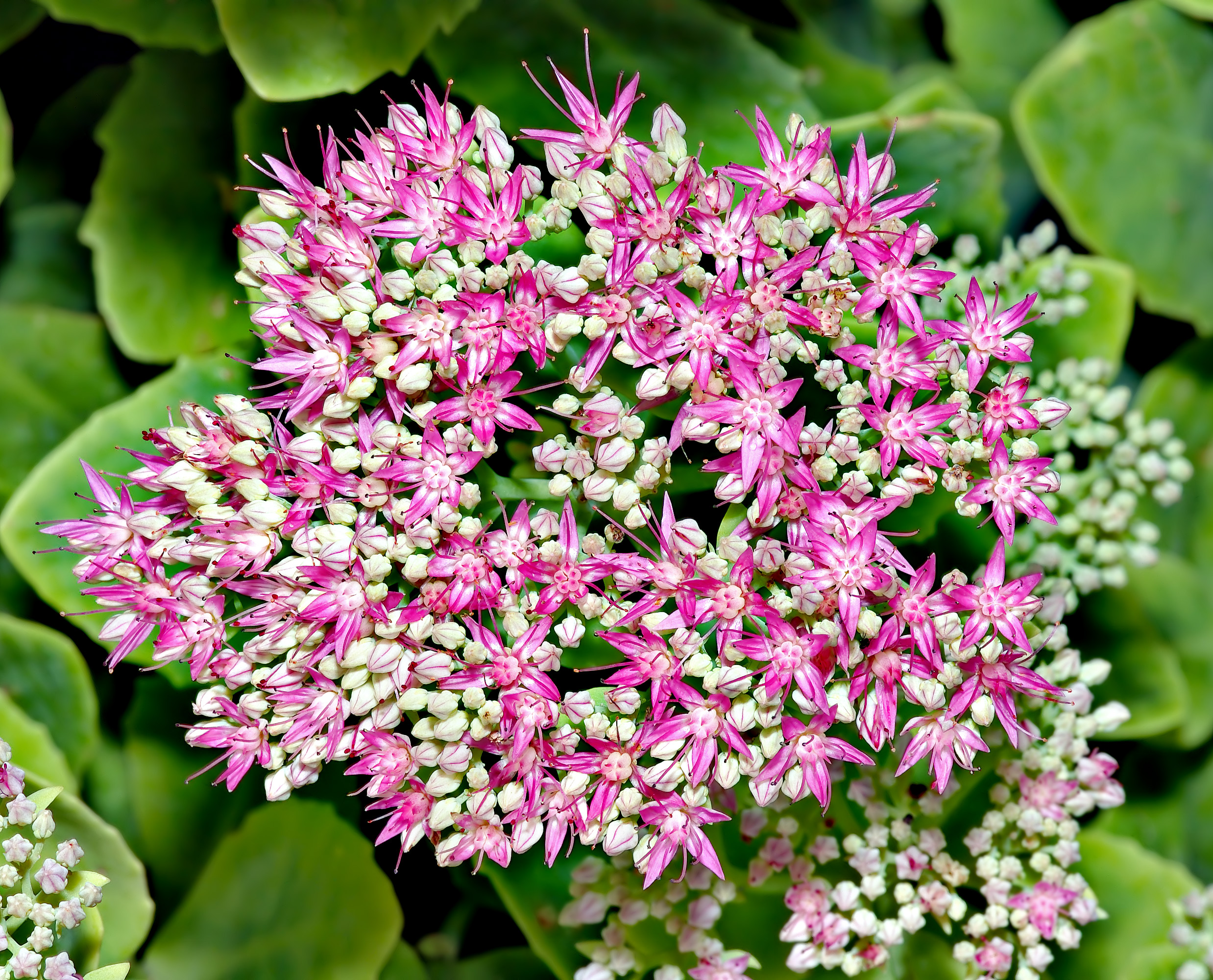 This image shows a Showy Stonecrop (Sedum spectabile).